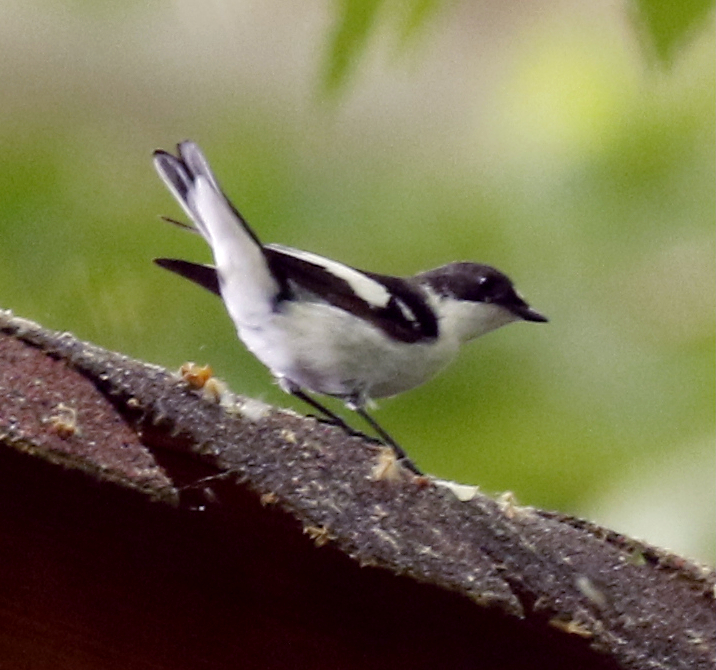 Struma River Valley - Bulgaria